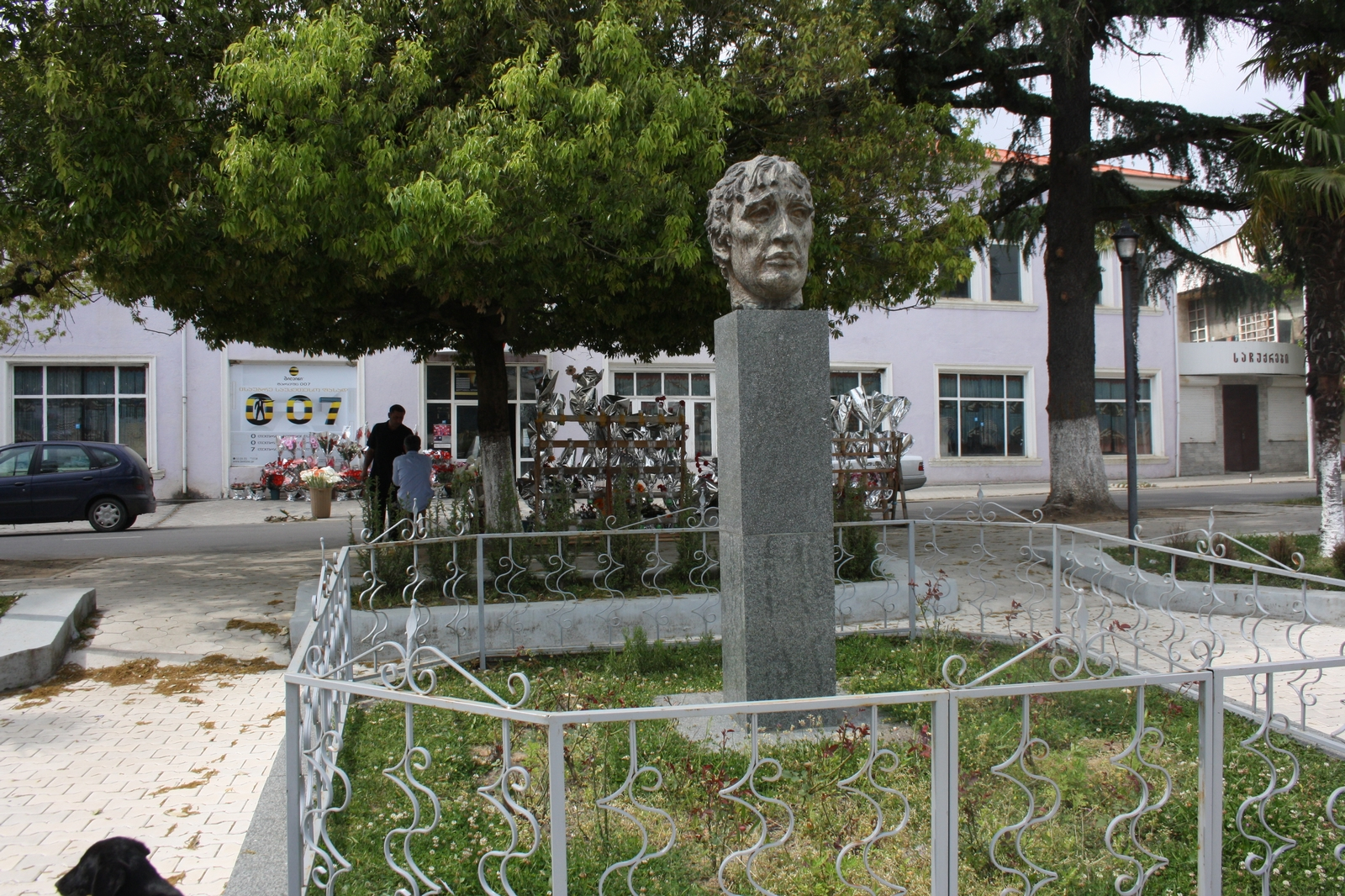 Nodar Dumbadze Memorial in Chokhatauri, Guria